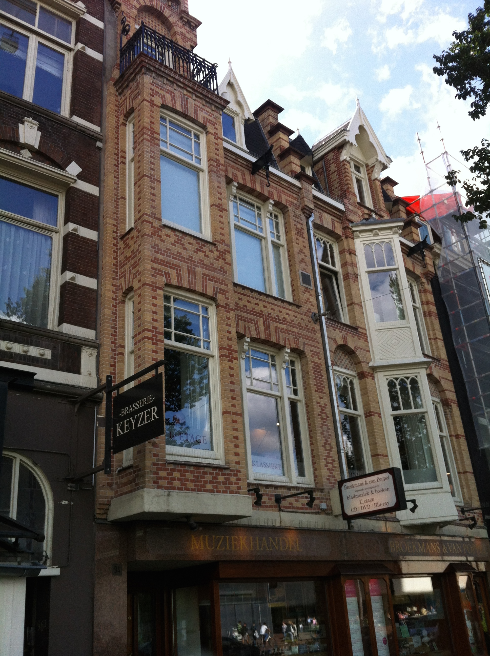 The Broekmans & Van Poppel building in Amsterdam. Located close to the Concertgebouw. Previously the location of a sheet music company.